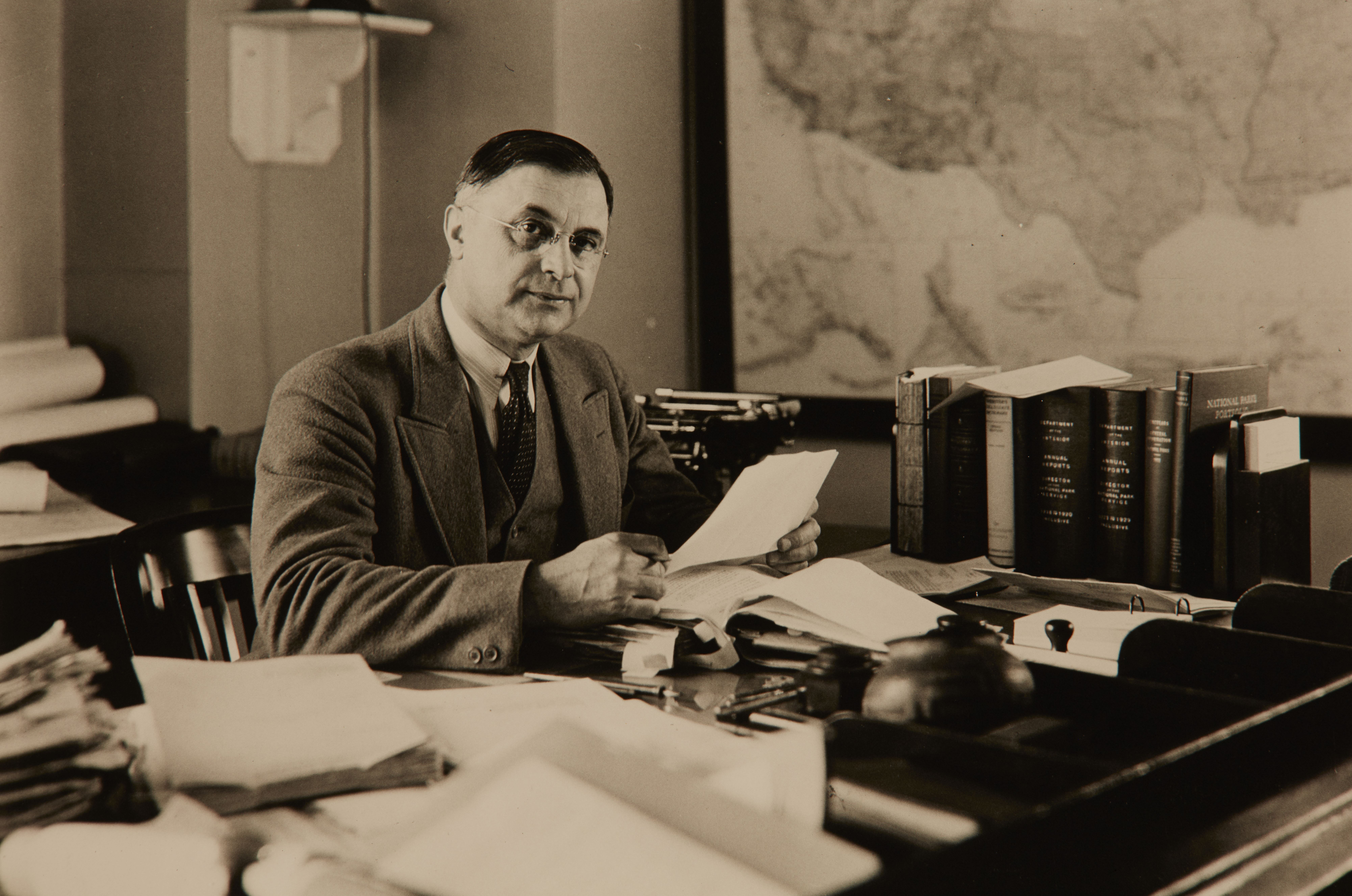 NPS Employees, Directors ABC. NPS Director Arno Cammerer sitting in his office. Keywords: nps director; NPS Personnel(NPS History Collection Themes)